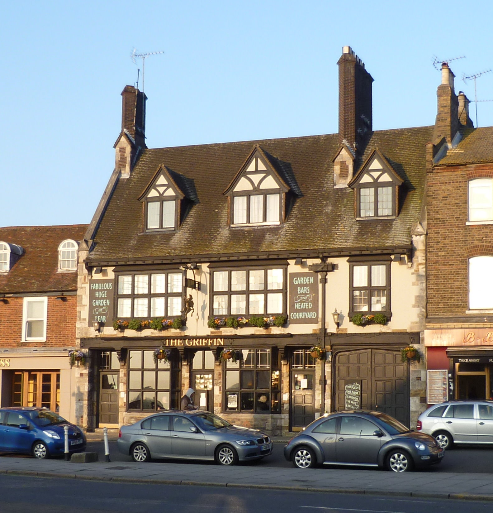 Whetstone